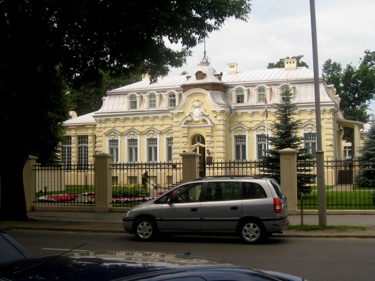 Embassy of Belarus in Vilnius